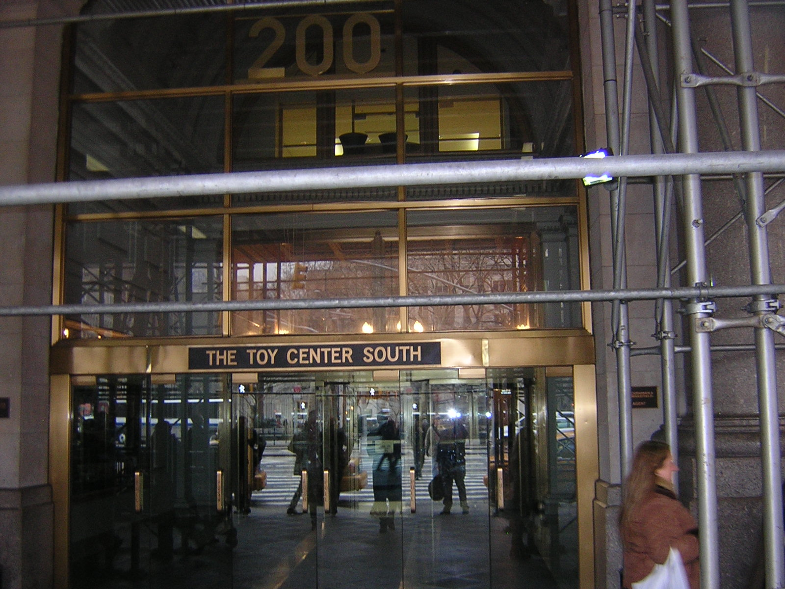 American International Toy Fair 2006. Exterior of 200 Fifth Avenue, Toy Center building, Toy District, NYC.